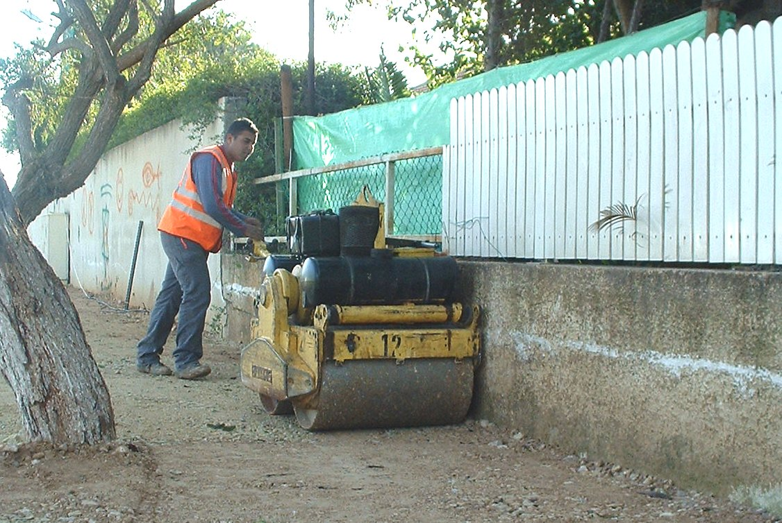 A Powered walk-behind road roller in Pardes Hanna-Karkur, Israel, photographed working on Derech HaBanim